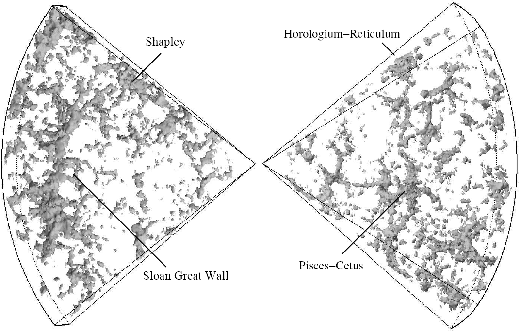 Three-dimensional DTFE reconstruction of the inner parts of the 2dF Galaxy Redshift Survey. The figure reveals an impressive view on the cosmic structures in the nearby universe. Several superclusters stand out, such as the Sloan Great Wall, once known as the largest structure in the universe until discovery of the Huge-LQG in January 2013. This picture was featured on 7 November 2007 on Astronomy Picture of the Day (APOD).